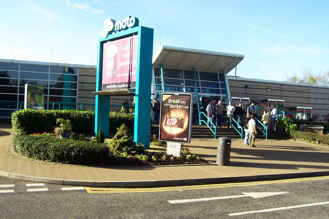 Services, Scotch Corner This will win no architectral design awards. It serves motorists heading up and down the Great North Road (A1)